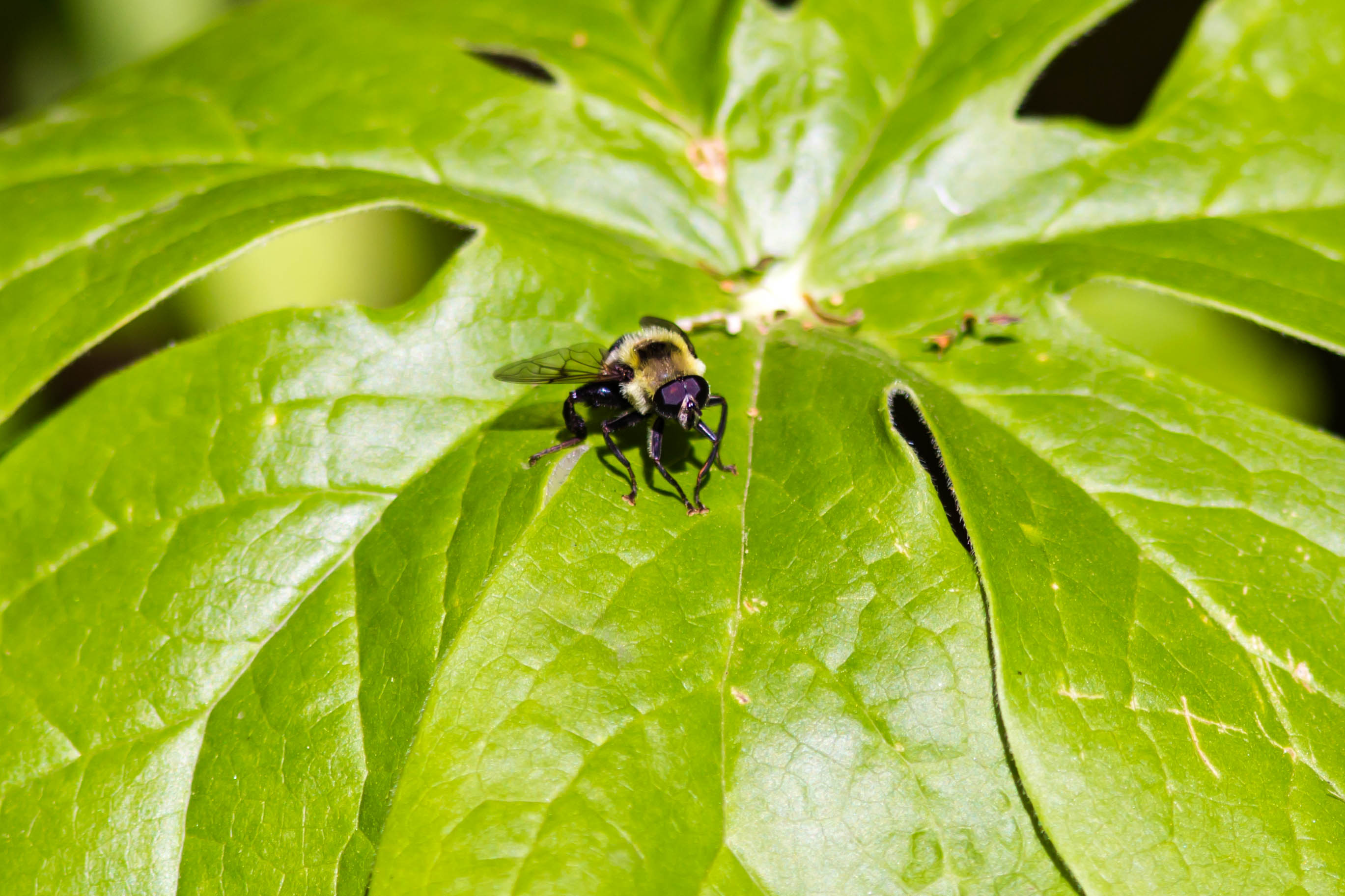 Hairy-eyed mimic